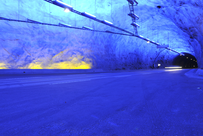 Lærdalstunnelen longest tunnel in the world, Norway